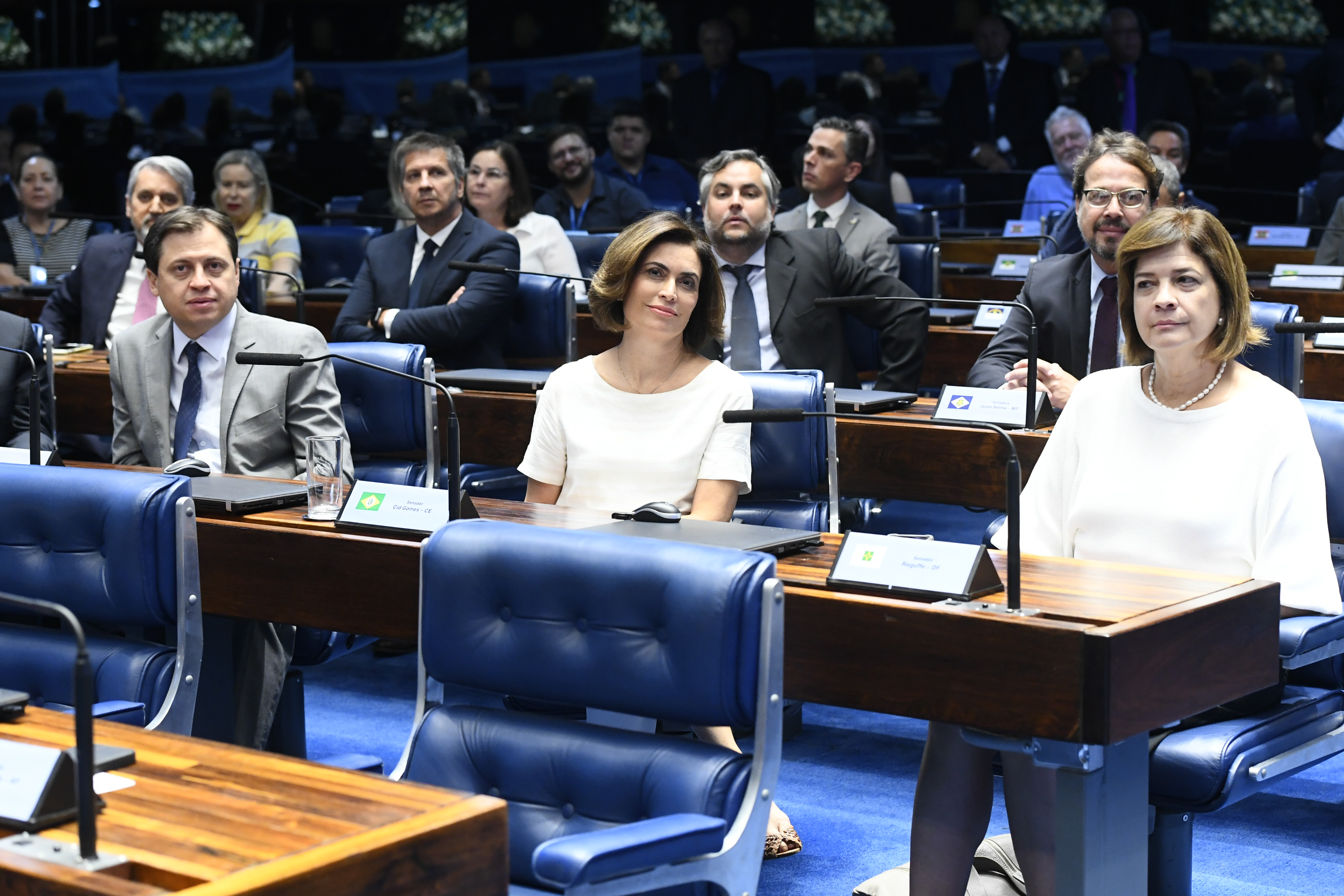 The journalists Gerson Camarotti, Giuliana Morrone and Delis Ortiz.